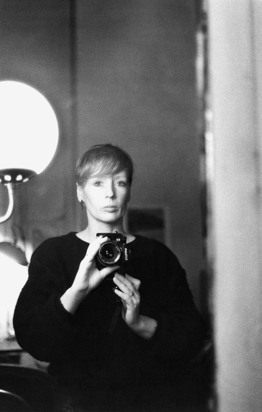 Selfportrait Sibylle Bergemann